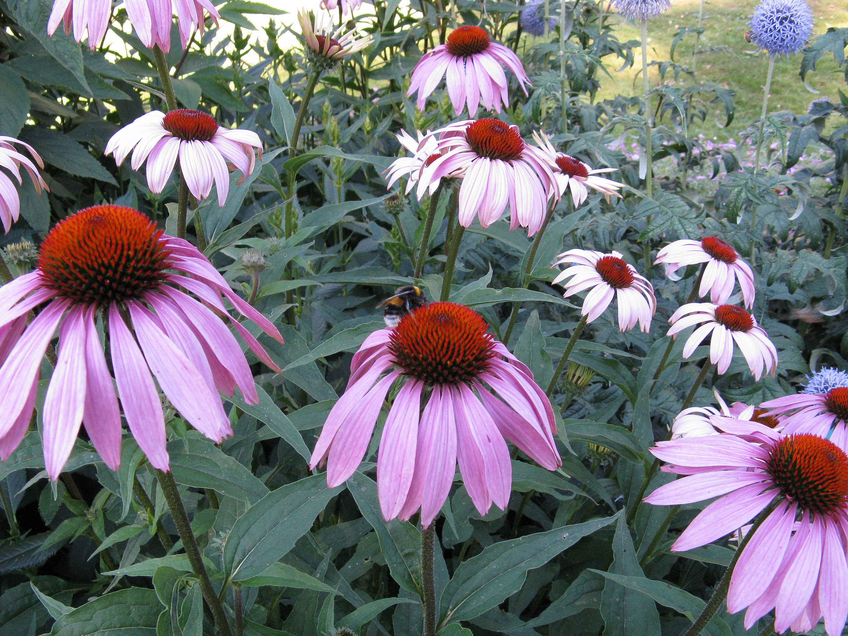 Echinacea purpurea blooms in a flower bed at the Botanical Gardens, Lund, Sweden.